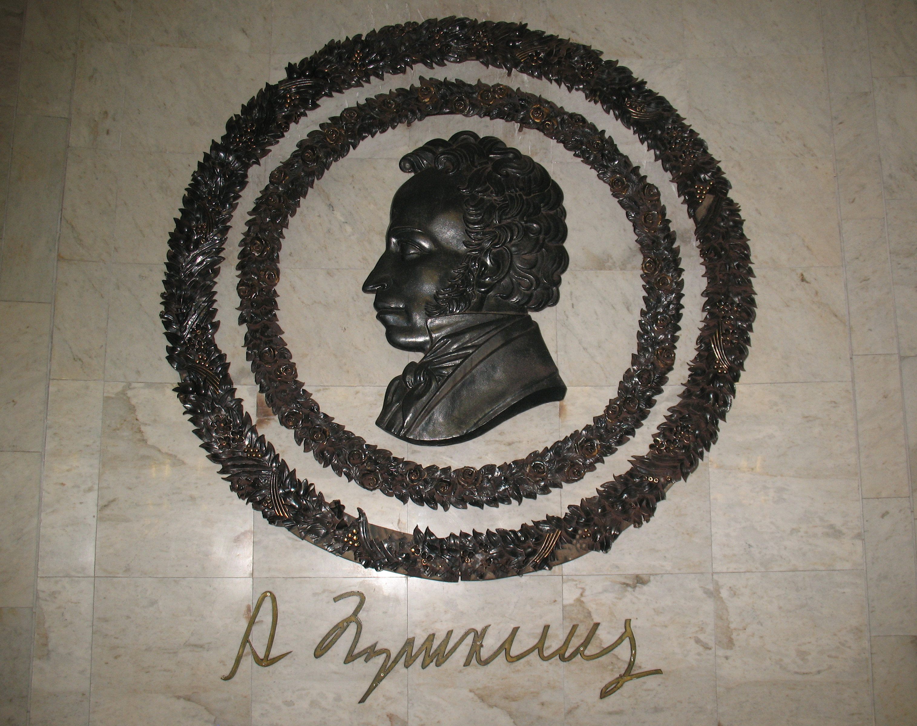 Bust of the great Russian poet A.S. Pushkin on the Pushkinskaya metro station wall in Kharkov.